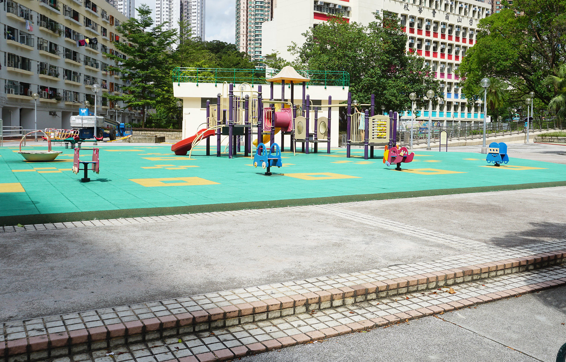 Tai Hing Estate in Tuen Mun, Hong Kong.